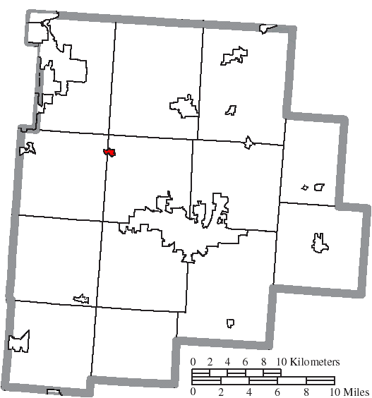 Map of the municipal and township boundaries of Fairfield County, Ohio, United States, as of the 2000 census, with the location of the village of Carroll highlighted. Township borders are shown only in unincorporated areas in order to differentiate incorporated and unincorporated areas more clearly.